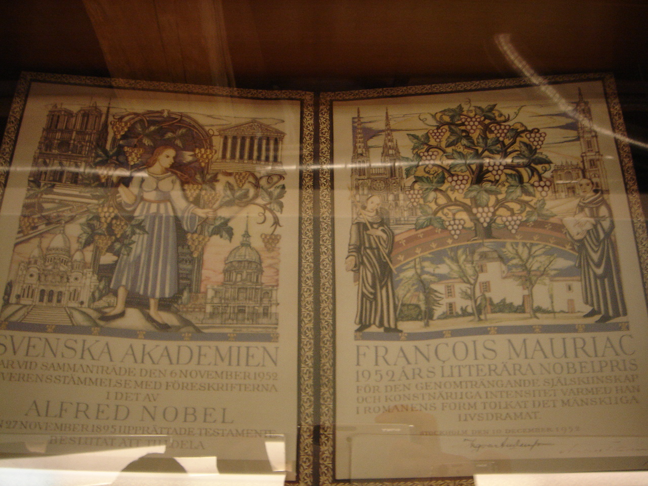 Diploma of François Mauriac, Nobel Laureate for Literature 1952.